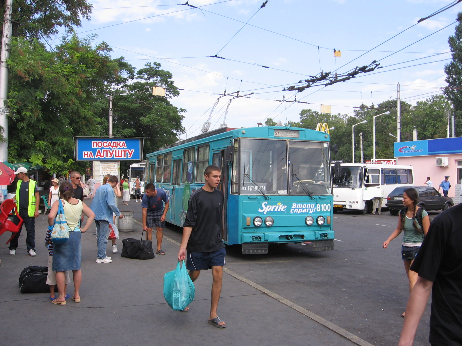 The 51 Alushta - Simferopol inter-city trolleybus at its end station in Simferopol. Trolleybus model is Škoda 14Tr.